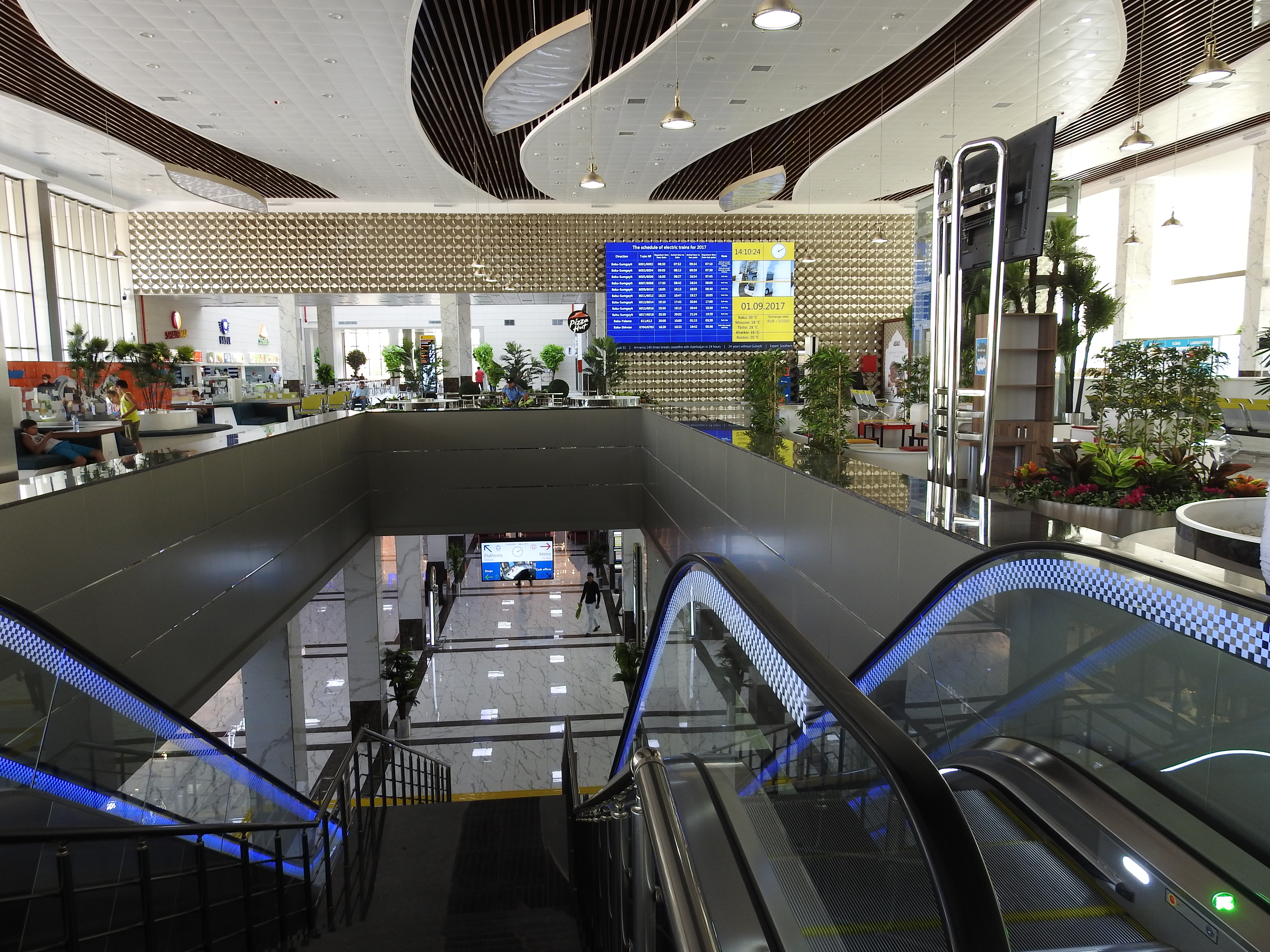 Entering a long series of glass doors to get to the exit, we come to what appears to be a large airport concourse. It was centrally aircon, gleaming, had food outlets and waiting areas and plenty of shops. We had to go down the escalator to go out of the building. I looked to the left expectantly, hoping there would be something to suggest the old train station, but all I could see were shops and more shops. (Baku, Azerbaijan, Sept. 2017)